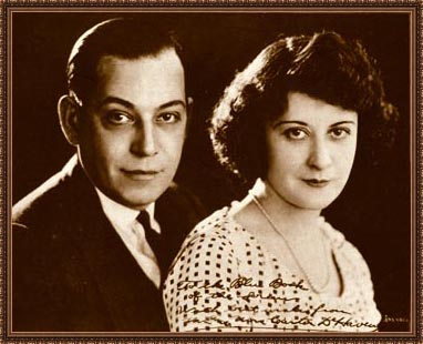 Publicity photo of Carter & Flora Parker DeHaven from The Blue Book of the Screen by Ruth Wing, editor